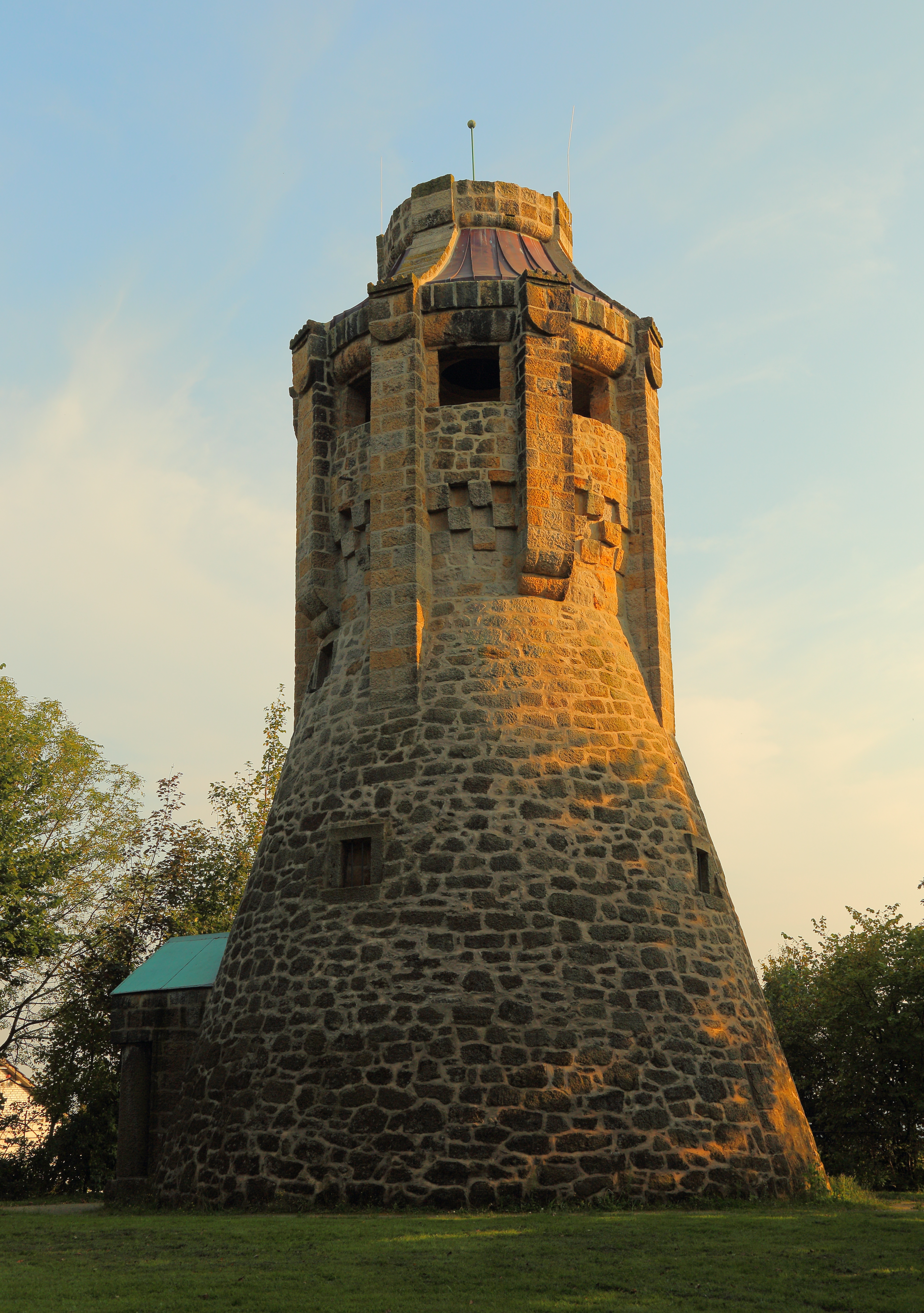 The Bismarck Tower (Bismarckturm) in Tecklenburg, Kreis Steinfurt, North Rhine-Westphalia, Germany.